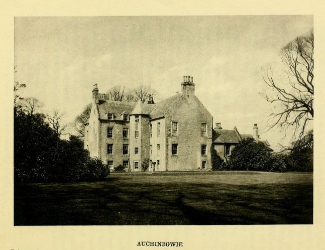 Auchinbowie House near Stirling, old family picture